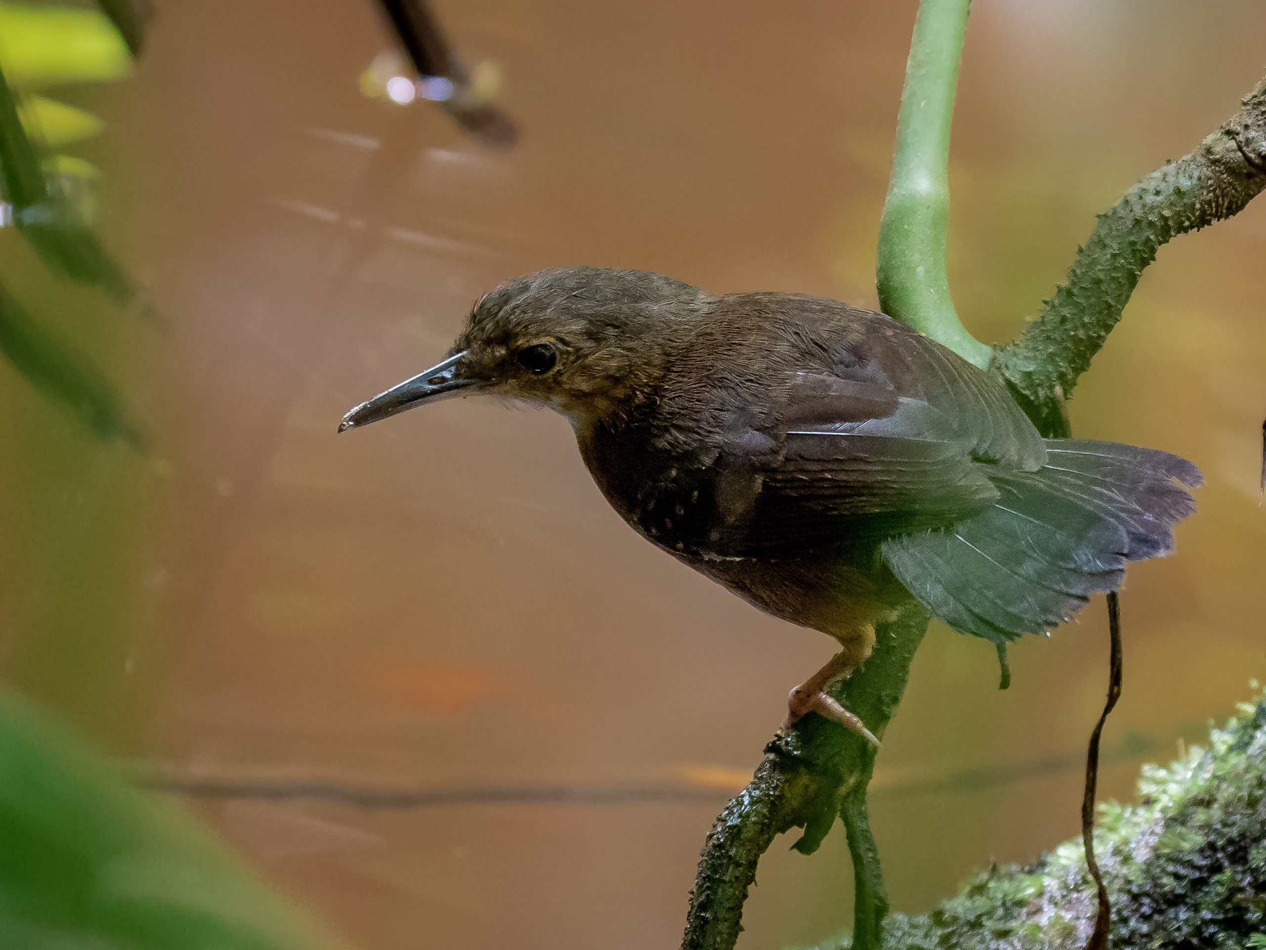 Silvered antbird (female), Manacapuru, Amazonas, Brazil